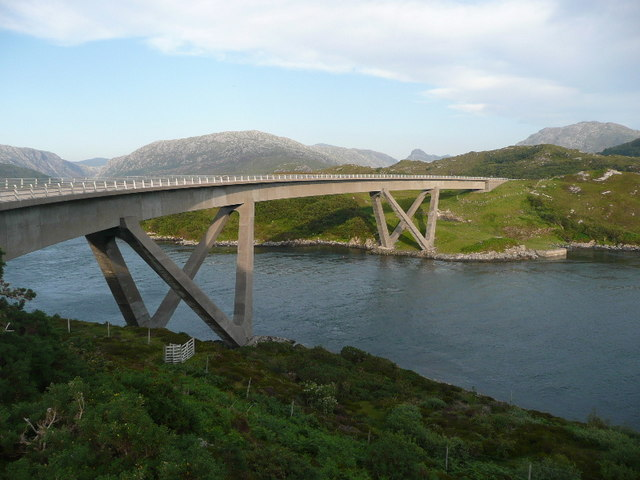 Kylesku Bridge Over the Caolas Cumhann.